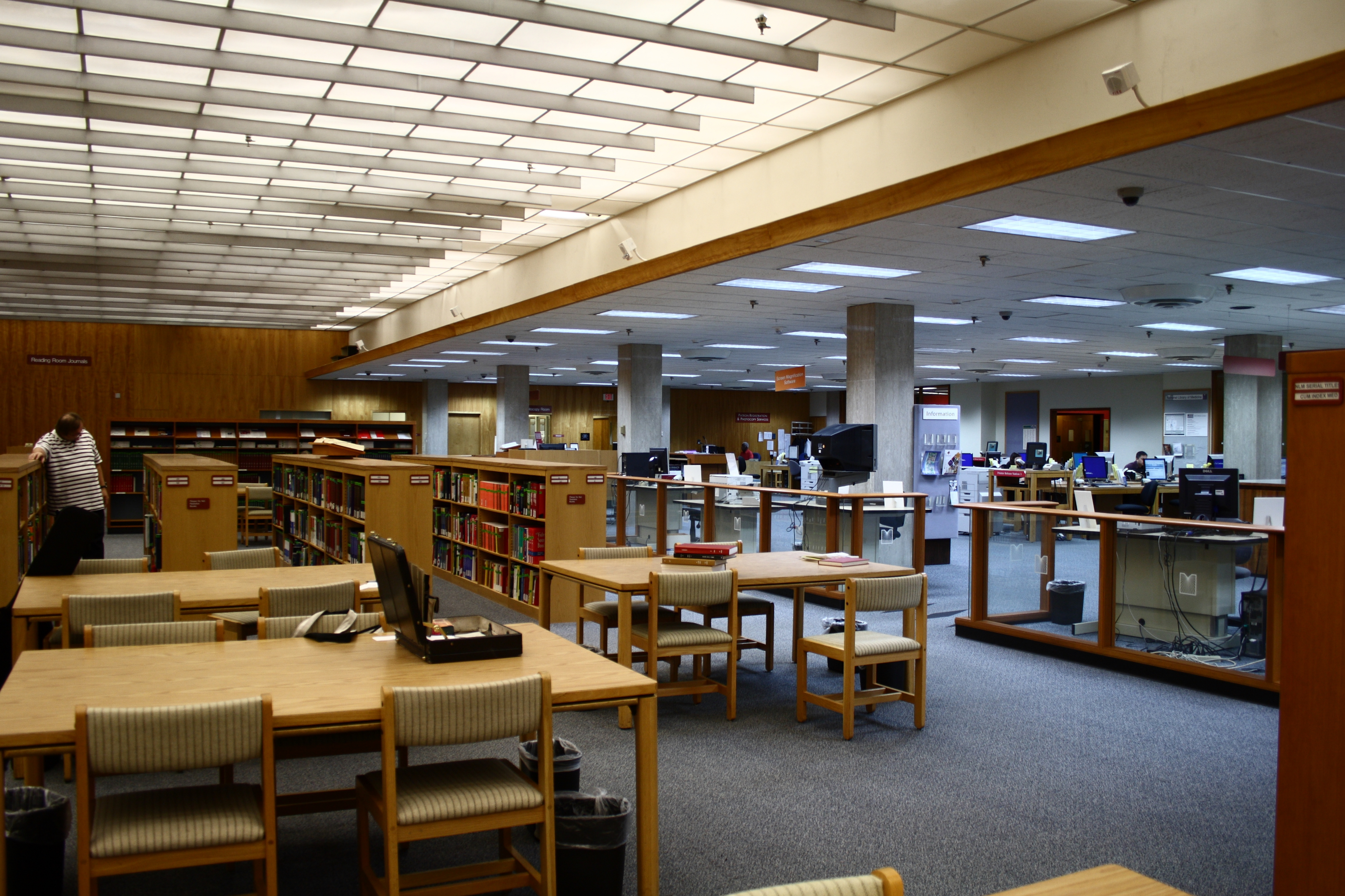 National Library of Medicine, Main Reading Room